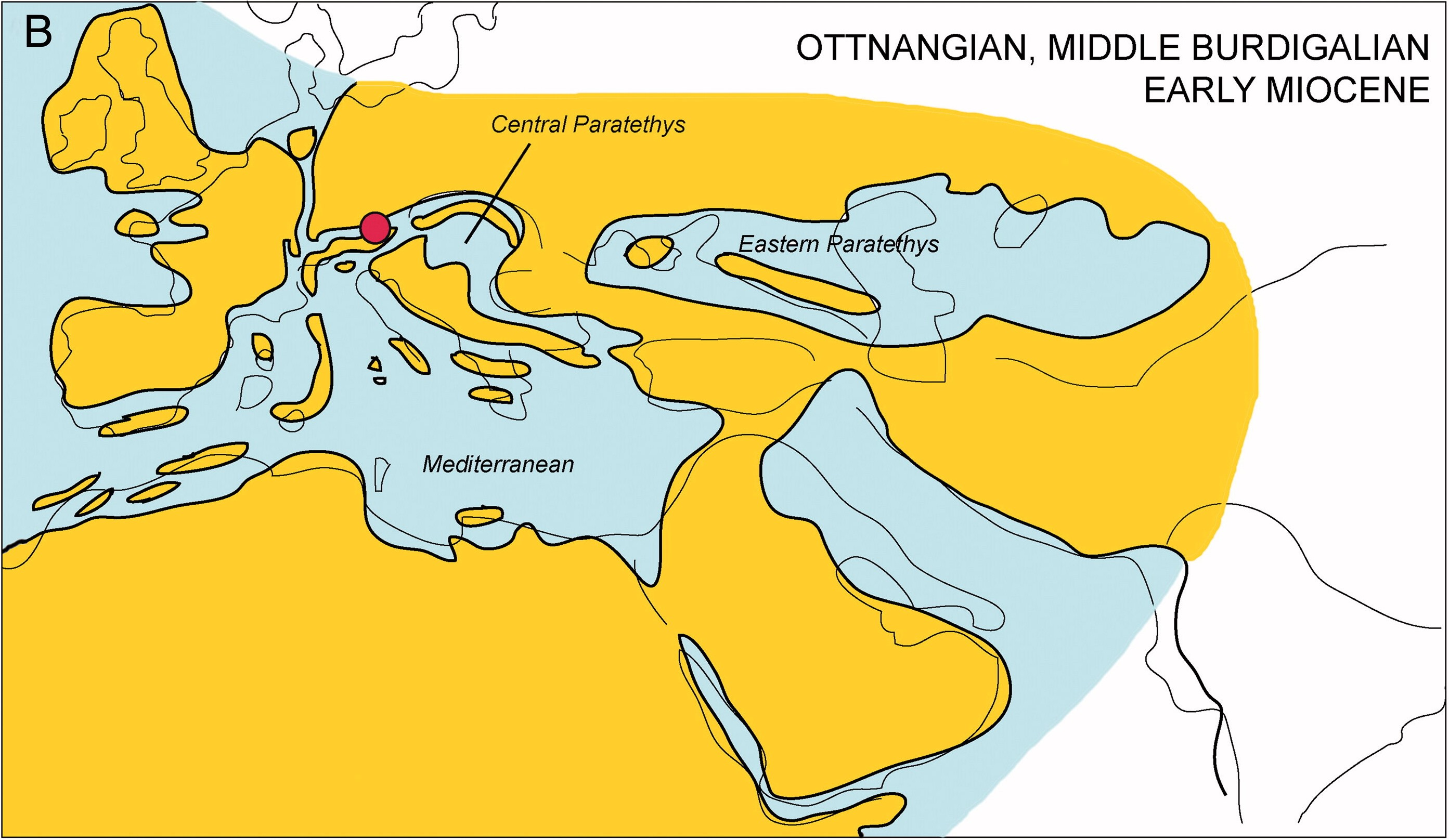 Figure 1 B, palaeogeographical sketch-maps of the Paratethys seas during the Ottnangian, middle Burdigalian, early Miocene showing the possible location of the locality (red dot) where Ostarriraja parva gen. et sp. nov. was found, based on Rögl (1998).